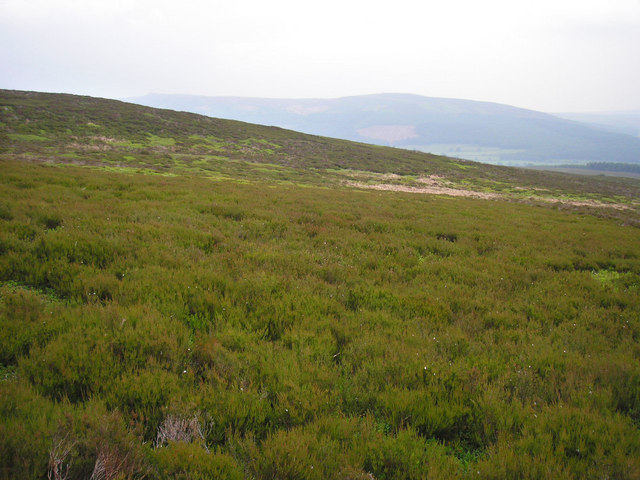 Barden Moor. A rather featureless part of this extensive grouse moor. Barden Fell (with Simon's Seat at the left-hand end) is in the distance.